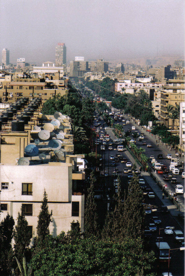 This is the main street in the Giza district, Egypt, facing east. Going west leads to the Giza plateau.